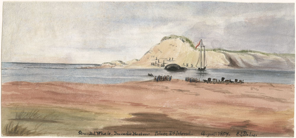 Stranded Whale, Tracadie Harbour PEI. Watercolor by Caroline Daly, August 1857. Subject depicts landscape with sandy shoreline in foreground, body of water midground and bluffs (?) on horizon, many figures on shoreline, sail ship with red flag at c.r. From R9266-163, the Peter Winkworth Collection of Canadiana.